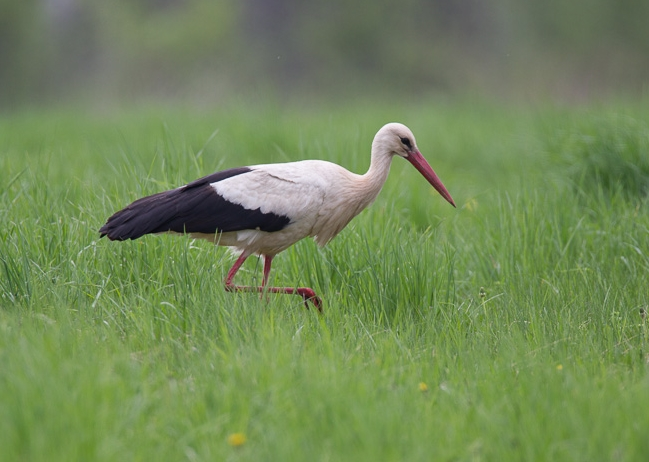 Present in Estonia, but not quite as common as in Poland, where they nested on man-made platforms.